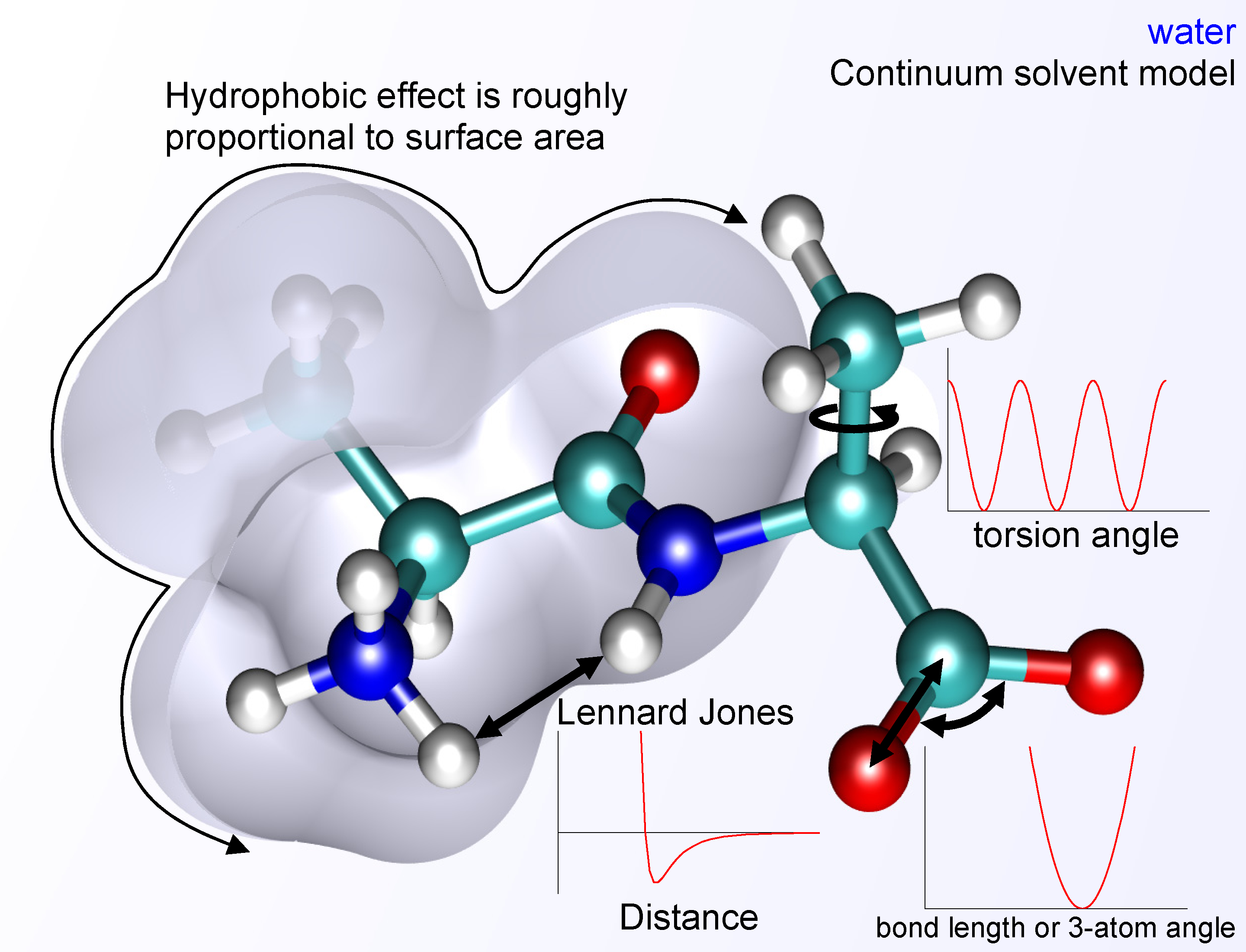 Physics on a molecular scale. The atoms in a molecule can be modeled as charged spheres connected by springs that maintain bond lengths and angles. The charged atoms interact with each other (via Coulomb's law) and with solvent. The model shown is called a molecular mechanics potential energy function, and it is used by programs like Folding@Home to simulate how molecules move and behave. The molecule shown is an alanine dipeptide.